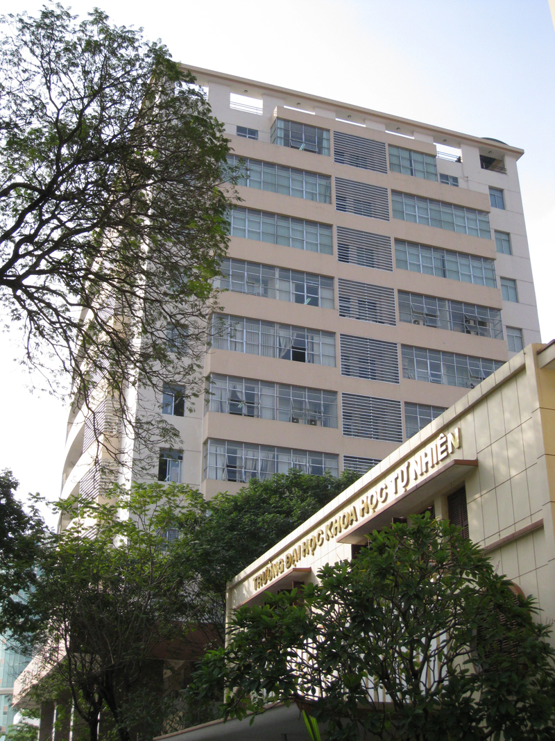 Co sở Nguyễn Văn Cừ